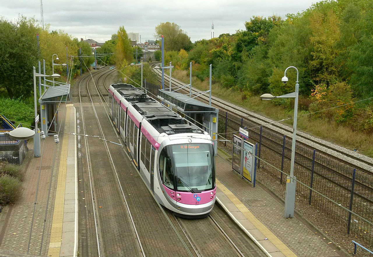 Midland Metro One of the new generation of tramcars passing Soho Benson Road tram stop.